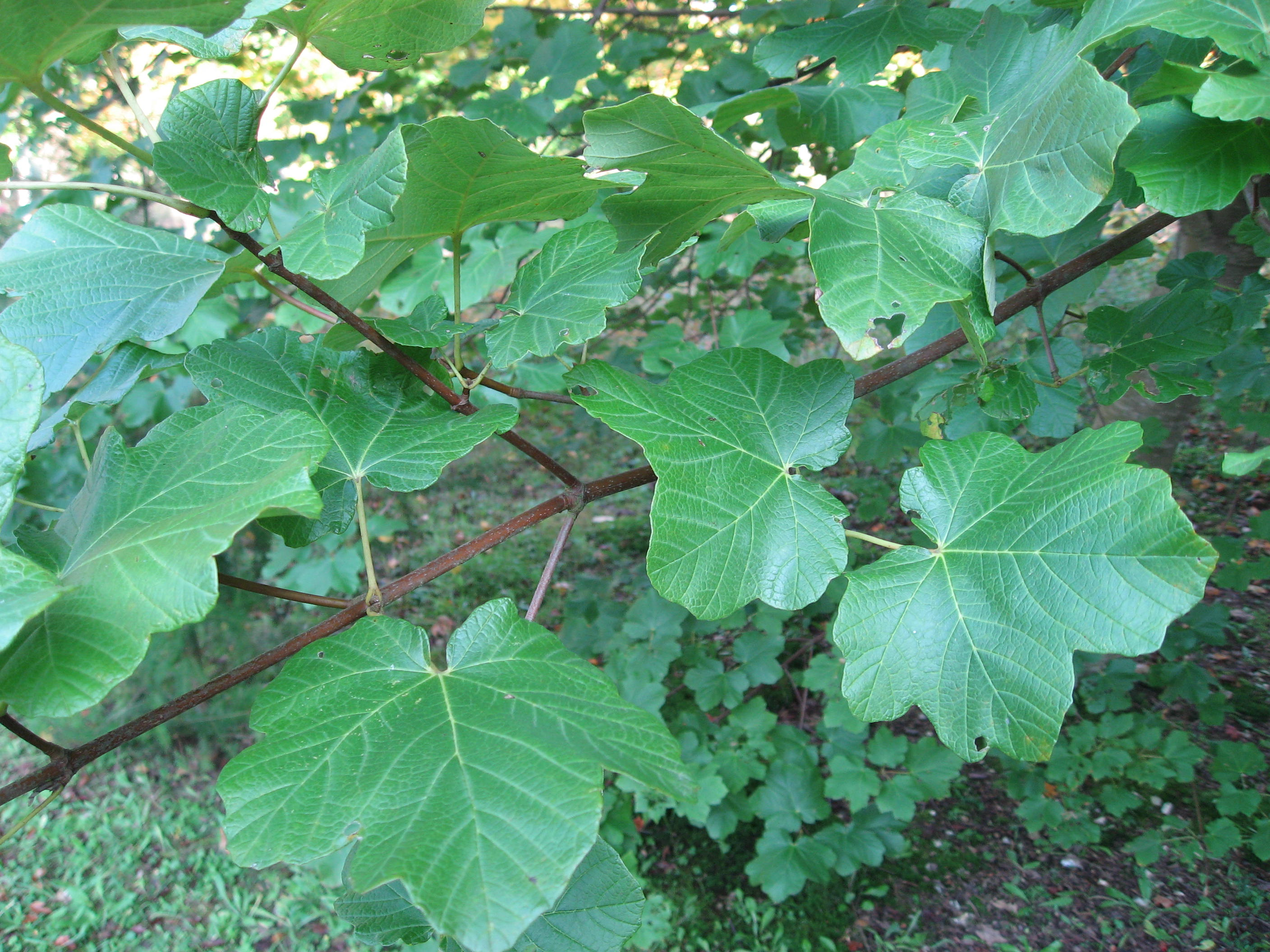 Acer opalus in Arboretum de La Roche-Guyon Map: 49° 5' 56" N 1° 38' 23" E